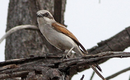 Lanius souzae - adult male